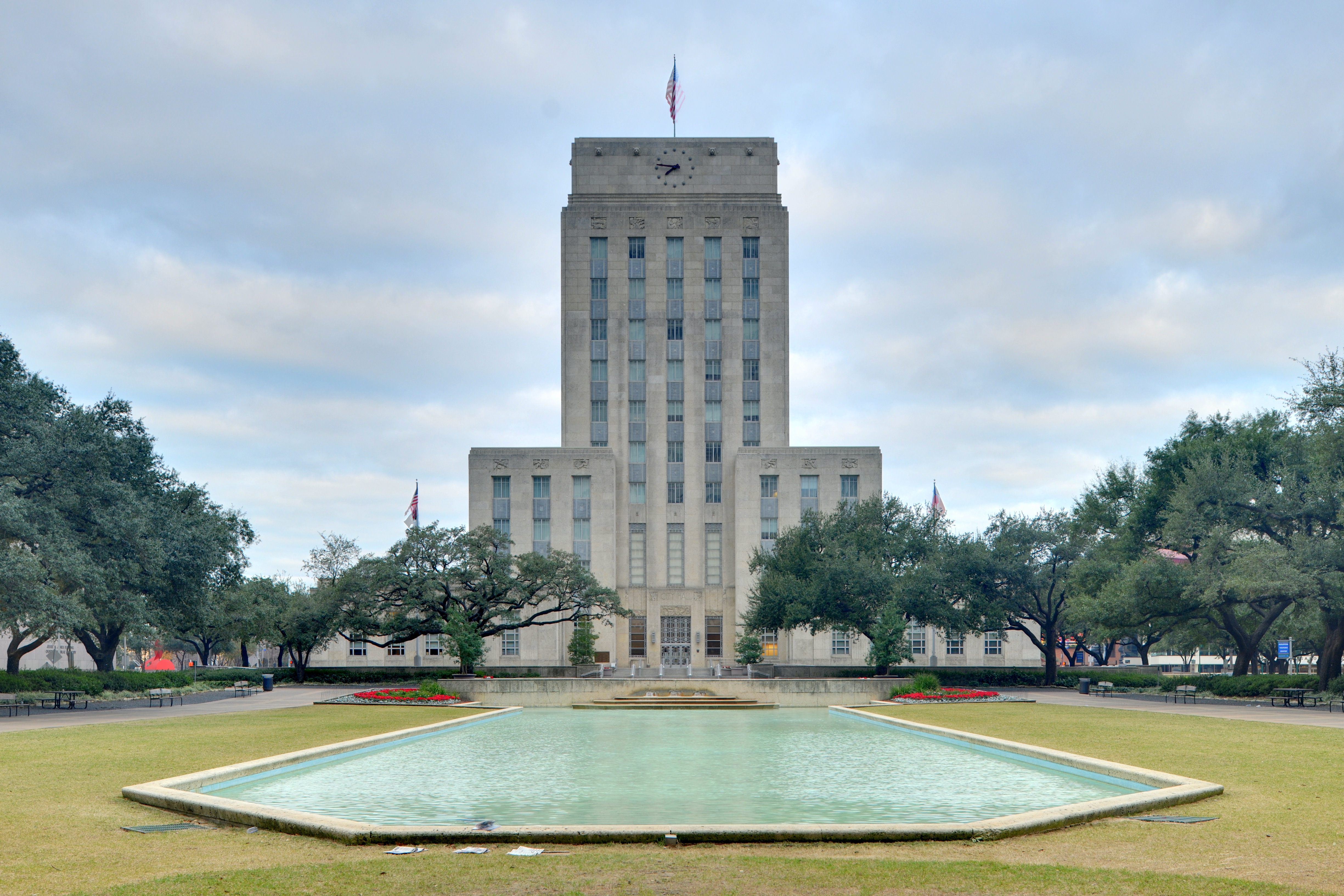 Houston City Hall at 901 Bagby St., Houston (Texas, USA) is listed in the National Register of Historic Places, United States Department of the Interior.